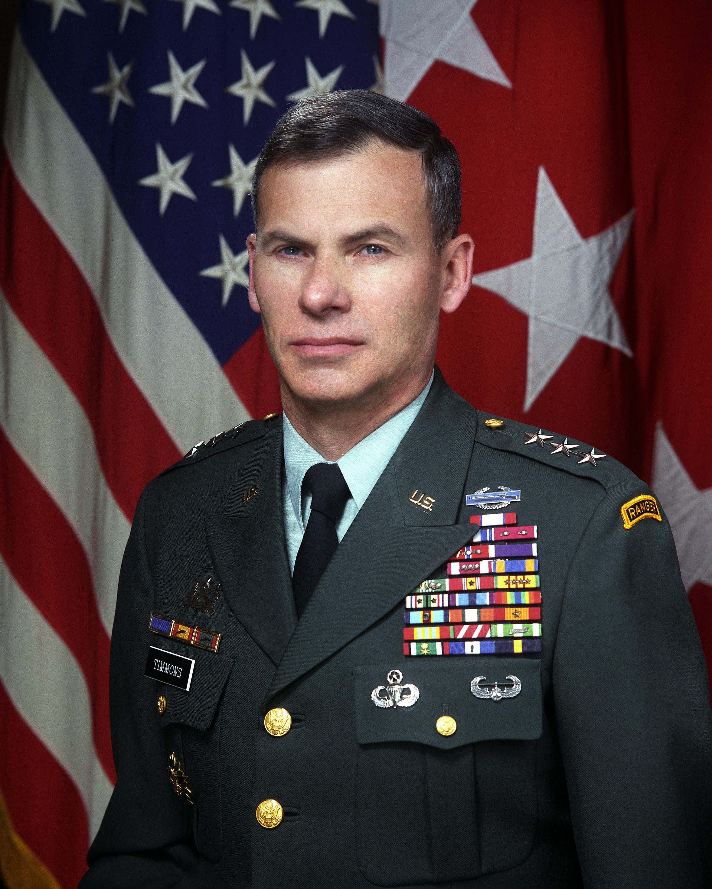 Scope and content: The original finding aid described this photograph as: Base: Pentagon State: District Of Columbia (DC) Country: United States Of America (USA) Scene Camera Operator: Scott Davis, CIV Release Status: Released to Public